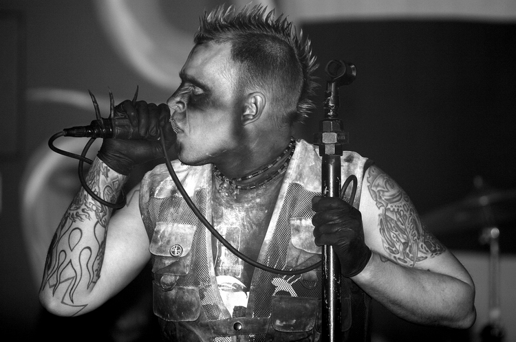 Andy LaPlegua live at New City in Edmonton, August 2007 with Combichrist